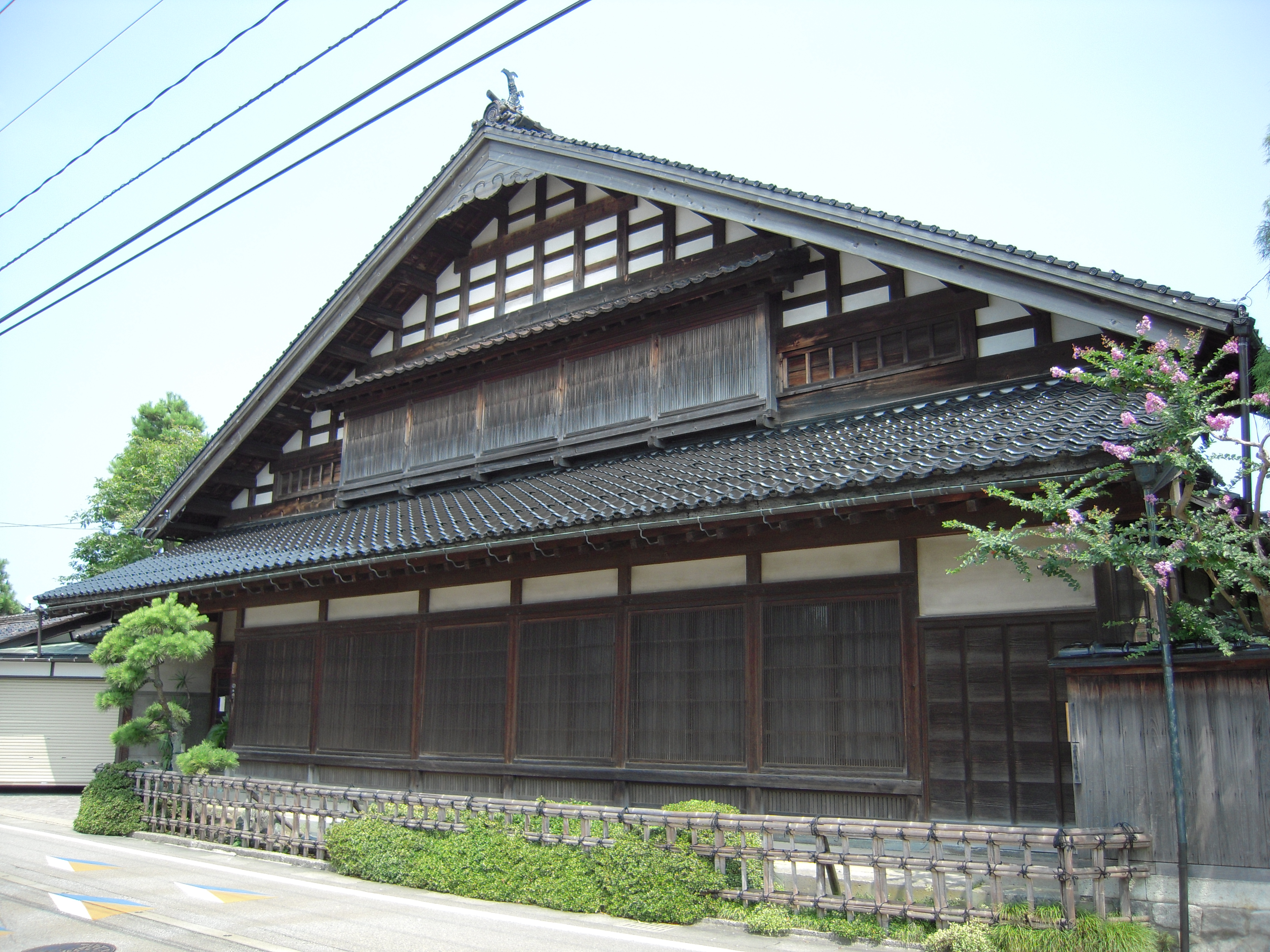 A traditional Azumadachi style wooden house in Daimon Machi, Imizu City, Toyama, Nippon